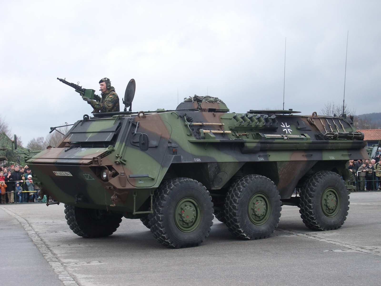 German TPz Fuchs with third company, Reconnaissance Batallion 8 (Aufklärungsbataillon 8), Armoured Brigade 12 (Panzerbrigade 12) at a show in Amberg, Bavaria.